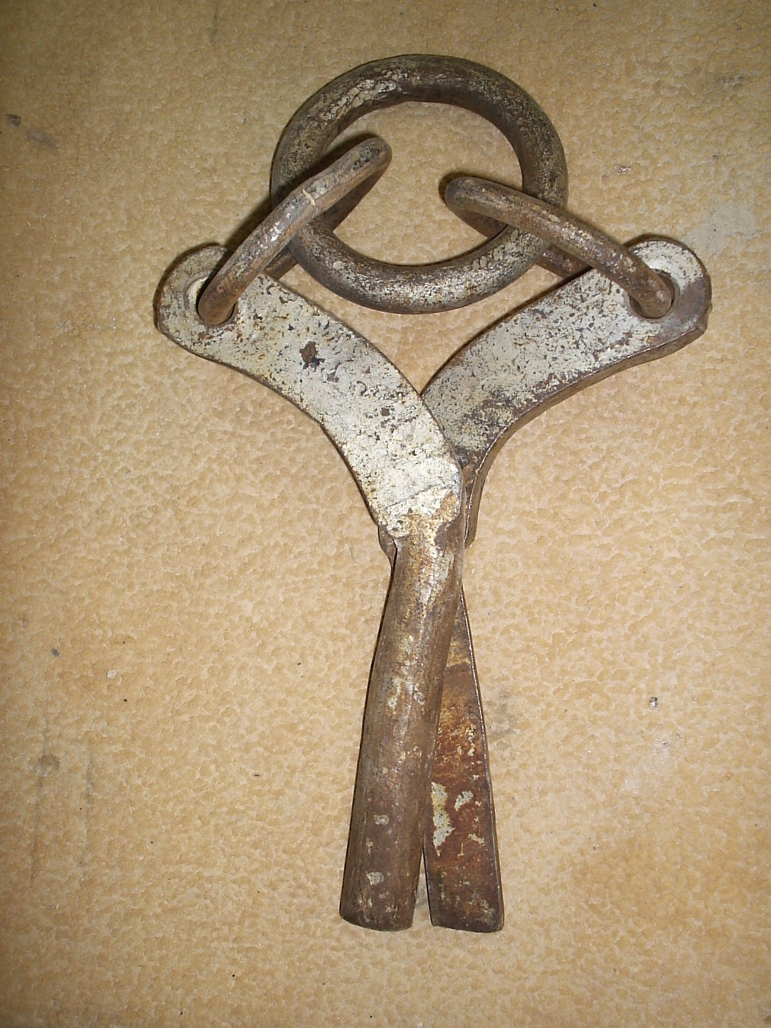 This image was recorded by me